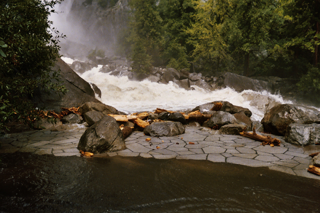 Yosemite Creek near the base of Lower Yosemite Falls, in Yosemite Valley, Yosemite National Park, California. The water is flowing over the observation deck during the May 2005 flood.